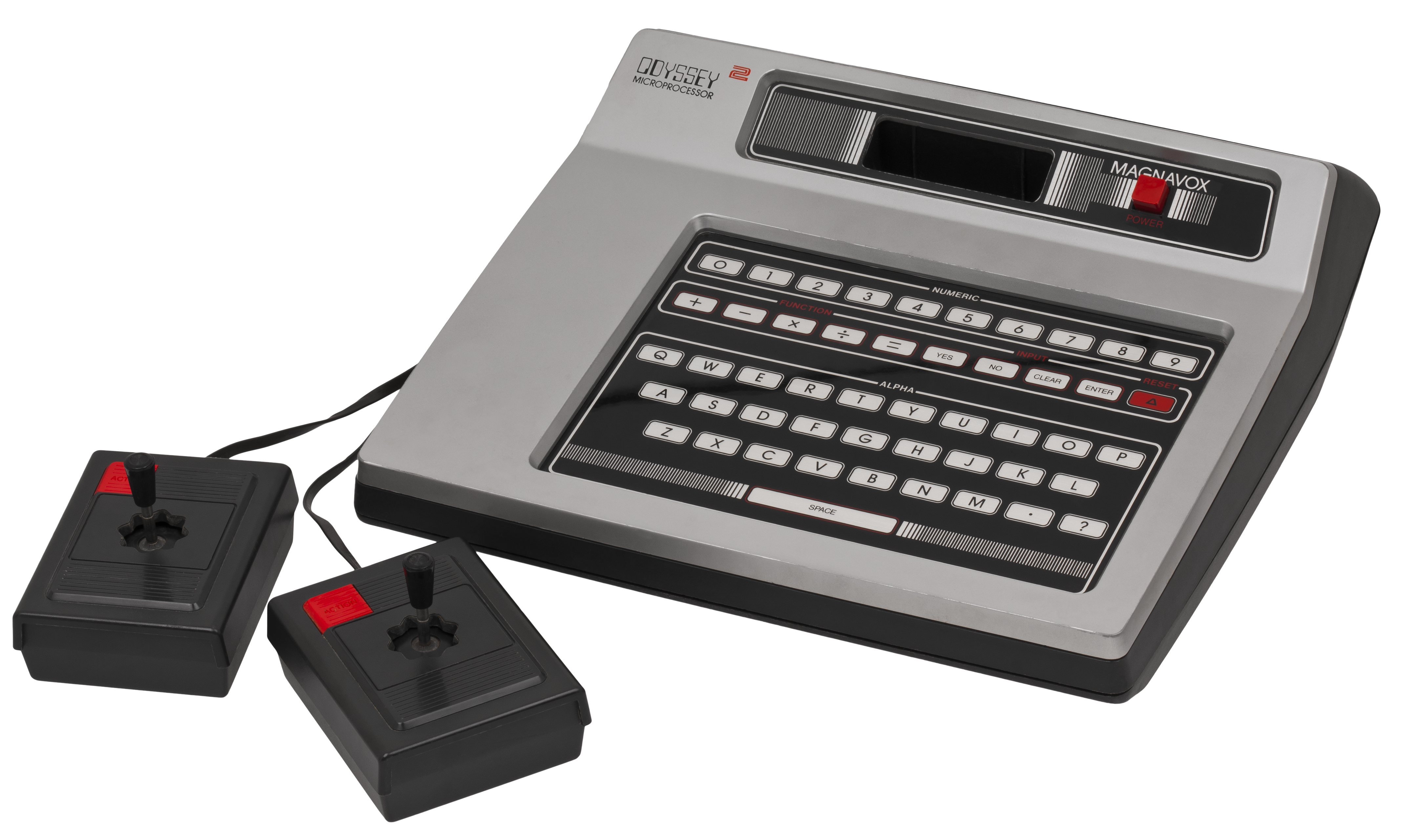 The Magnavox Odyssey², the 1978 follow up to original 1974 release of the Magnavox Odyssey. The console features two controllers that are wired directly into the system.